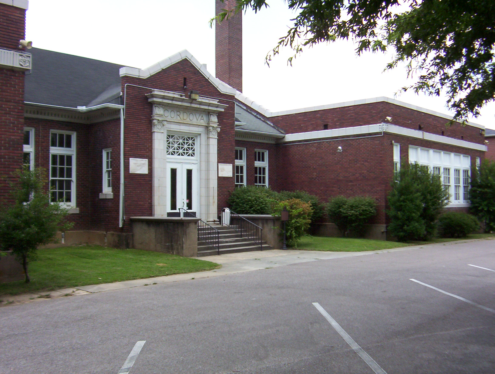 Cordova School on Sanga Road at Thor Road in Cordova, Tennessee. The building is now used as a Community Center. I made the photo myself, feel free to use it.